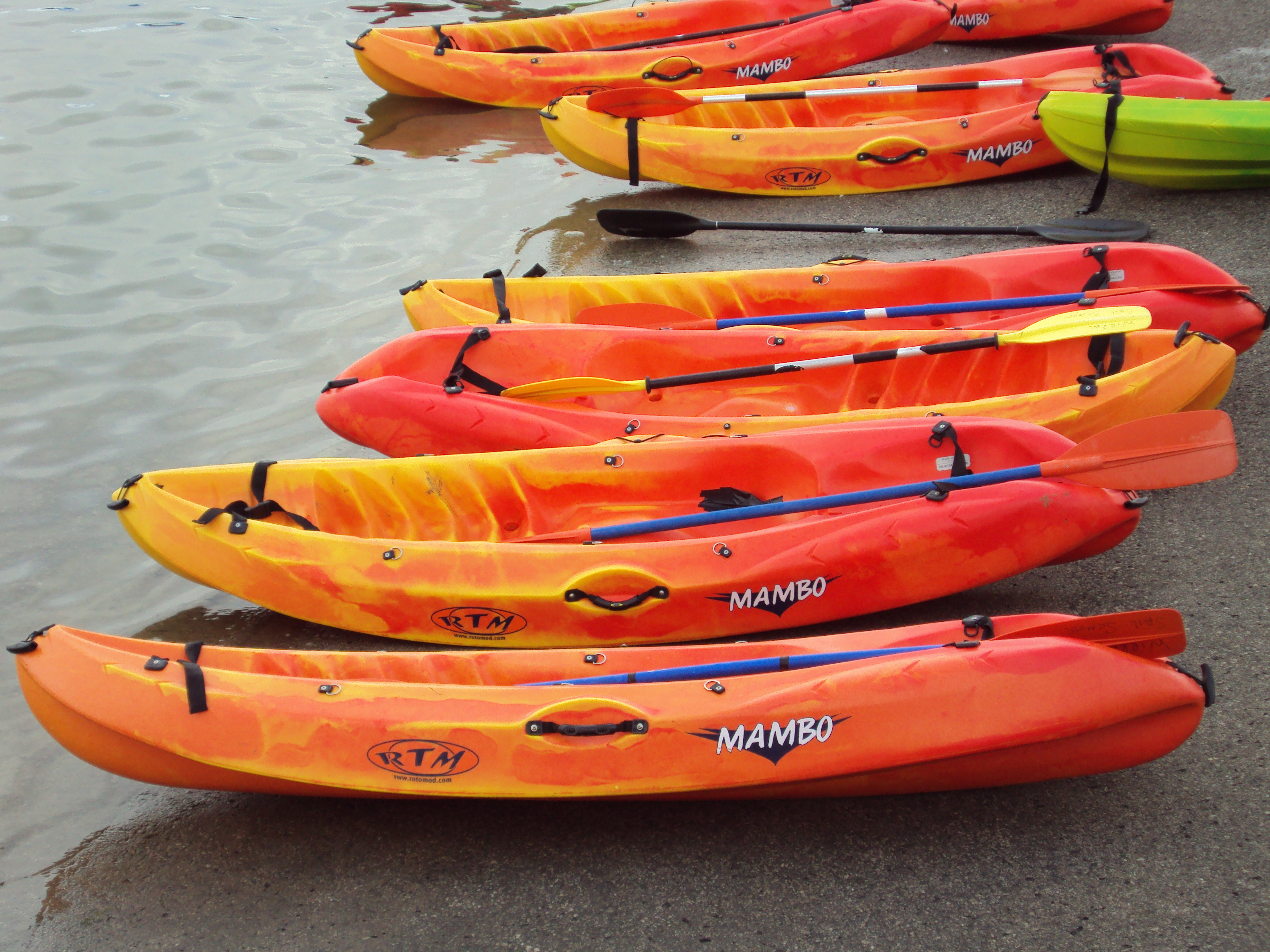 Kayaks at West Kirby Marine Lake, Wirral, England.